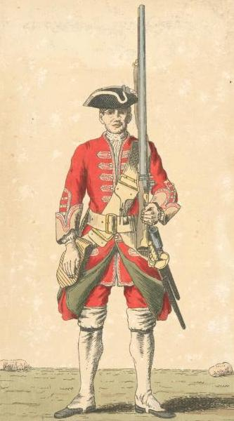 Soldier of the 32nd regiment (1742)